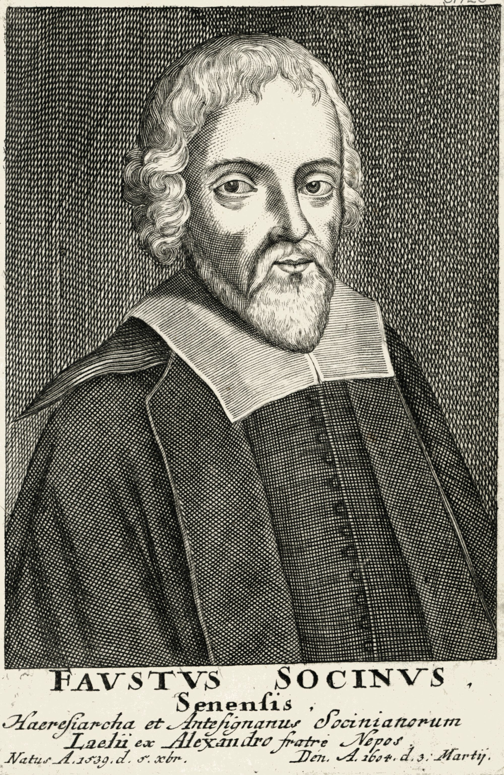 Fausto Paolo Sozzini